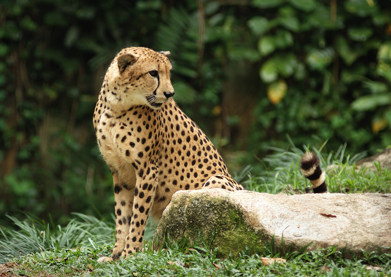 A cheetah in the Singapore Zoo